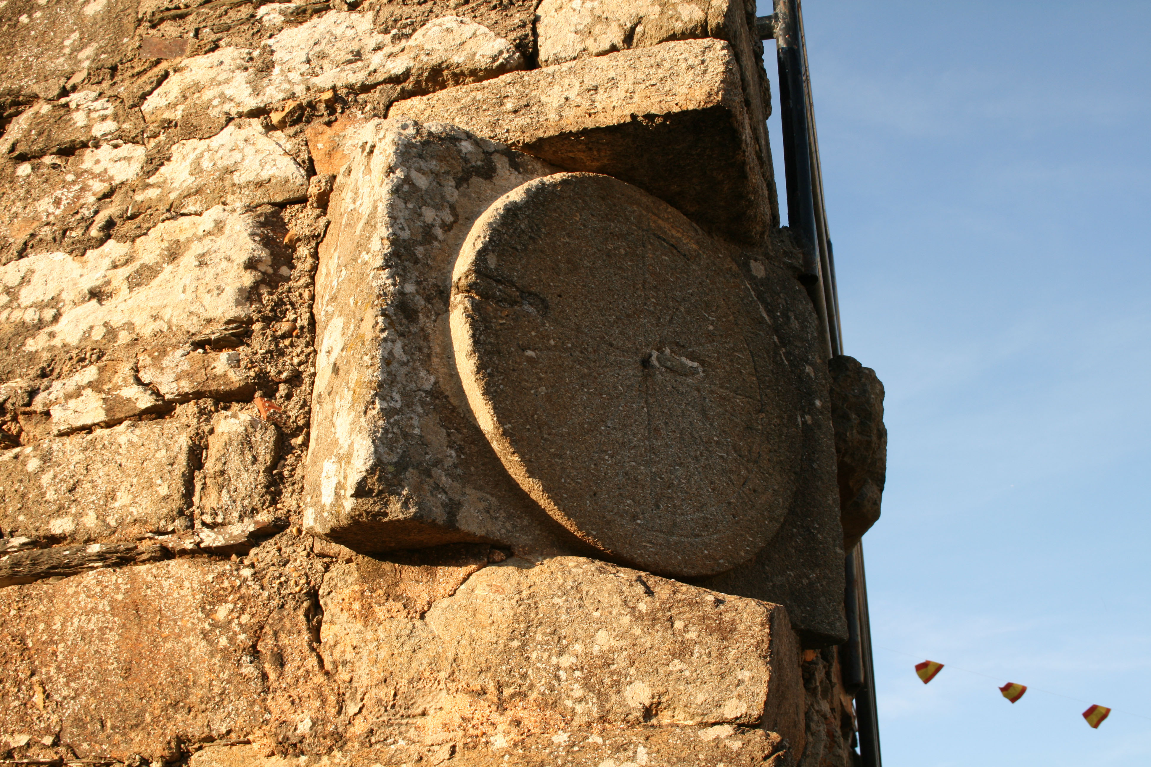 Sundial at Church in Las Torres de Aliste